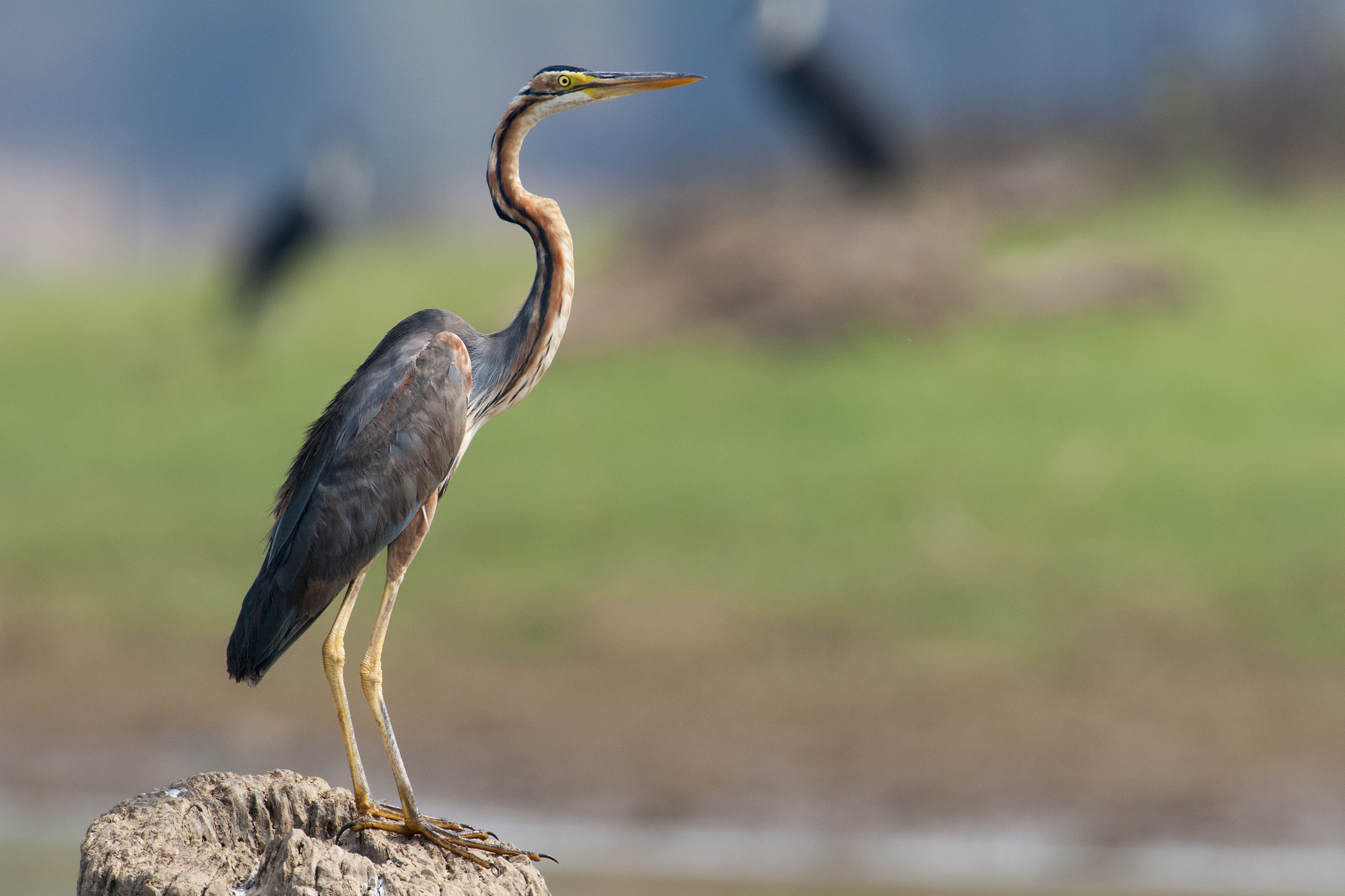 Purple heron in Nagarhole National Park, India.